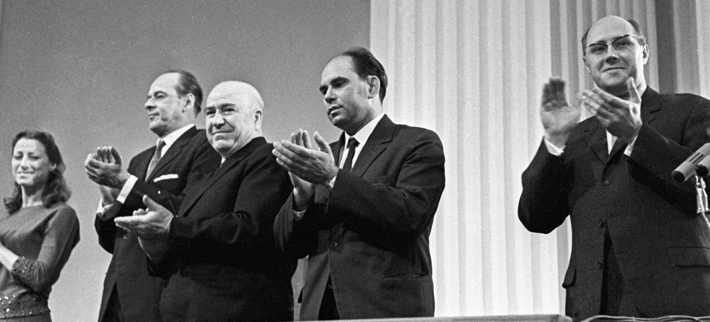 “Lenin prize-giving ceremony”. (From left to right): Maya Plisetskaya, Nikolai Cherkasov, Alexander Deineka, Vassily Peskov and Mstislav Rostropovich attending Lenin prize-giving ceremony in 1964